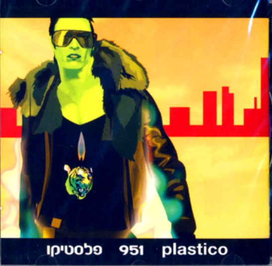 The cover of Plastico, Haifa-born art-group "951"'s third album, featured by Tiran.